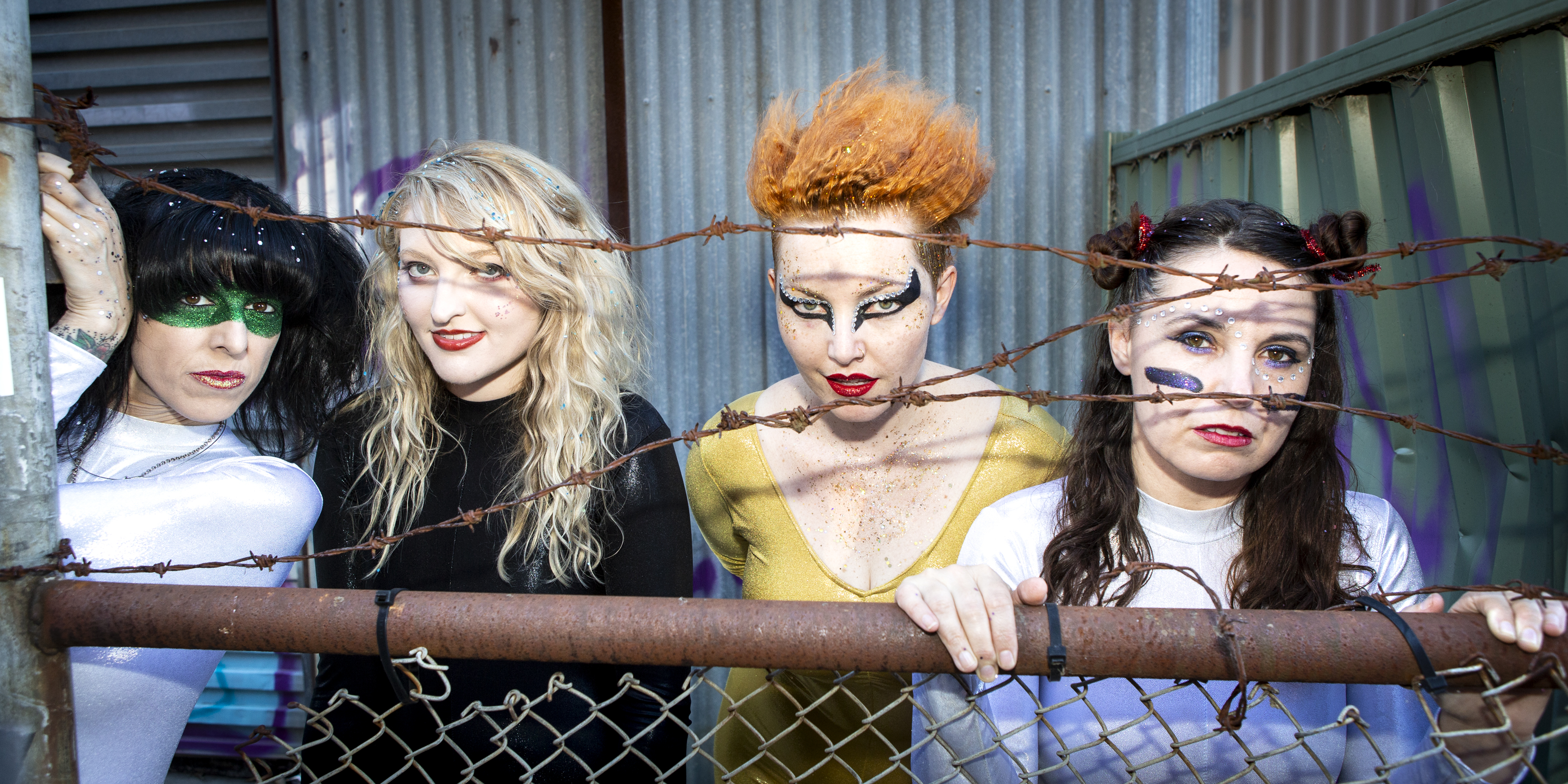 Glitoris: Photography by Damien Peck